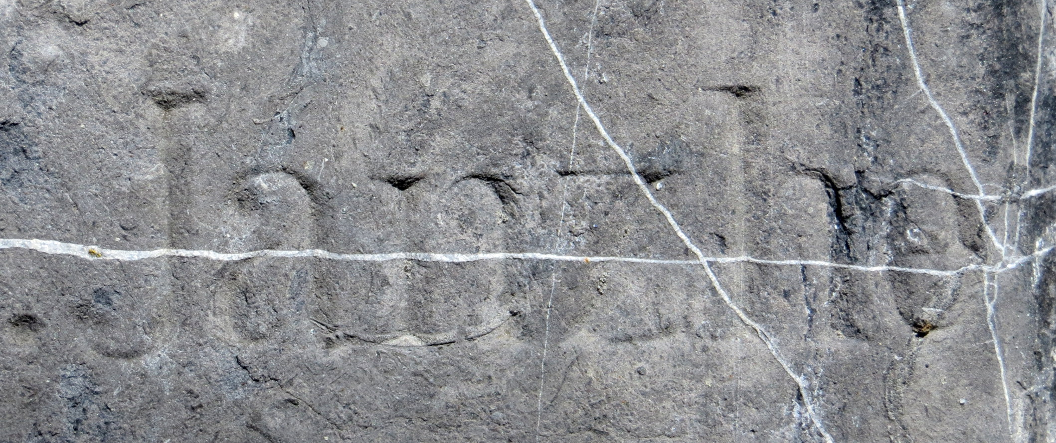 The name of Janče, City Municipality of Ljubljana, Slovenia spelled "Janzhe" in the Bohorič alphabet on a gravestone in the church cemetery.